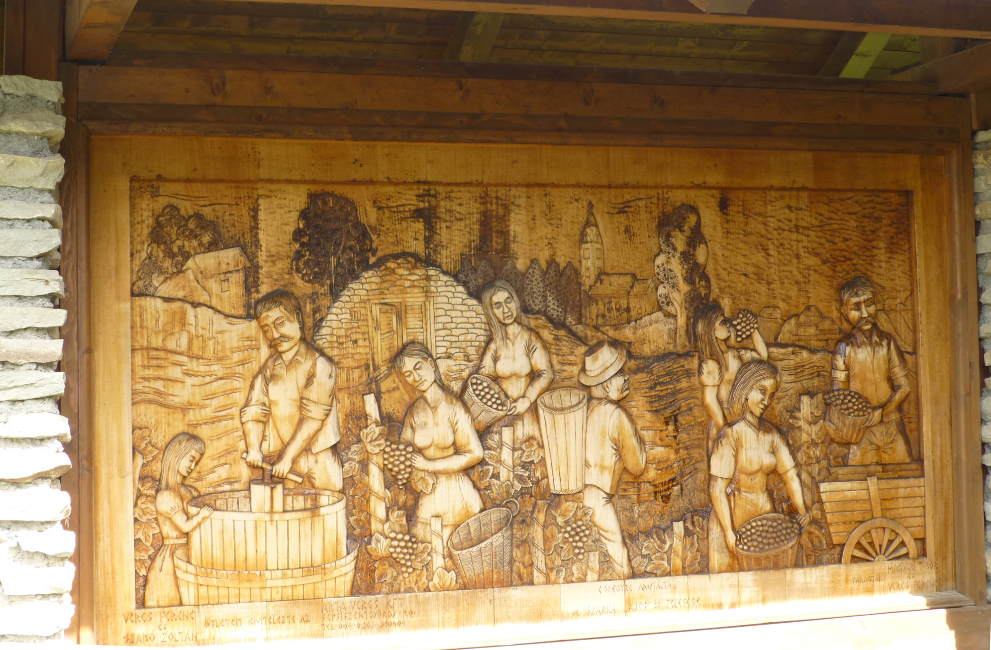 Wooden carving representation of the wine growing activity, Egregy, Kellergasse, above the blue church.